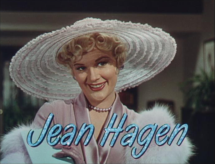 Cropped screenshot of Jean Hagen from the trailer for the film Singin' in the Rain.